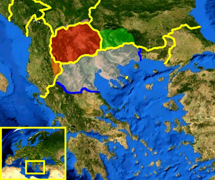 map of historical Macedonia based on NASA satellite image